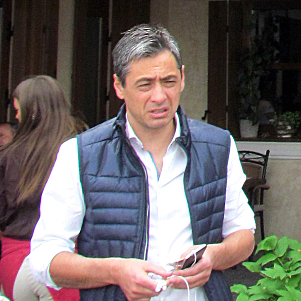 Serbian soccer player Dragan Ciric